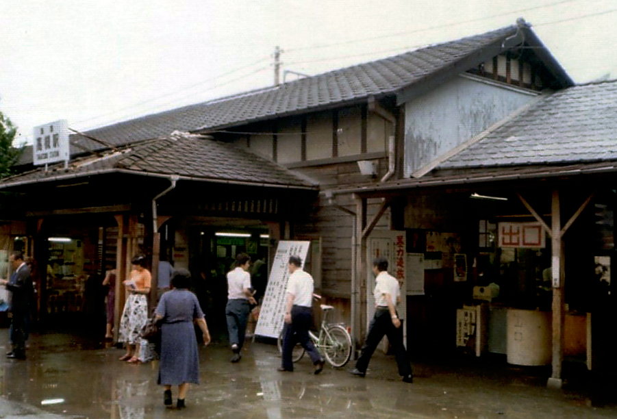 Former Takatsuki Station building in 1979, Takatsuki, Osaka prefecture, Japan.